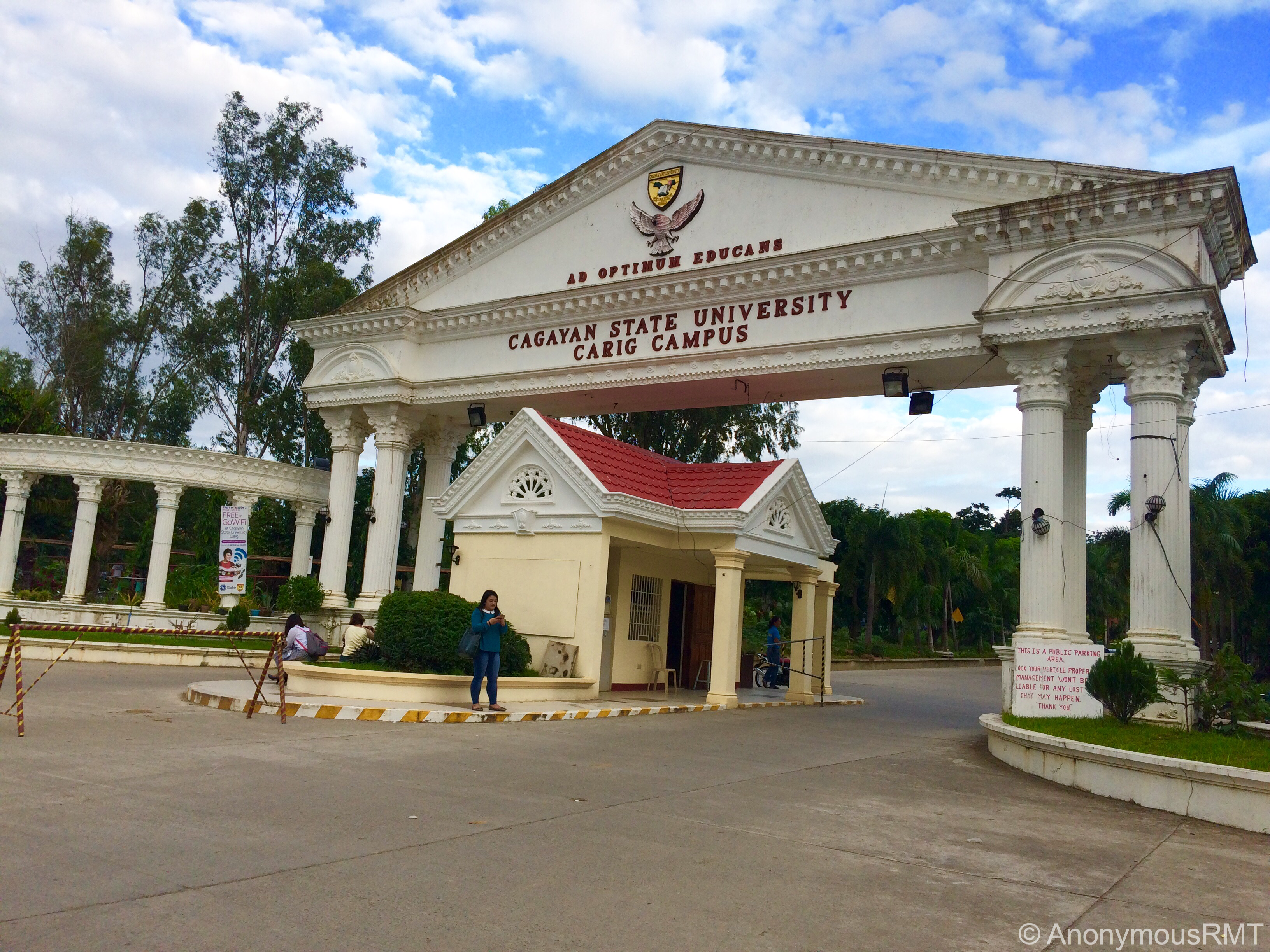 Main gate of Cagayan State University - Carig Campus